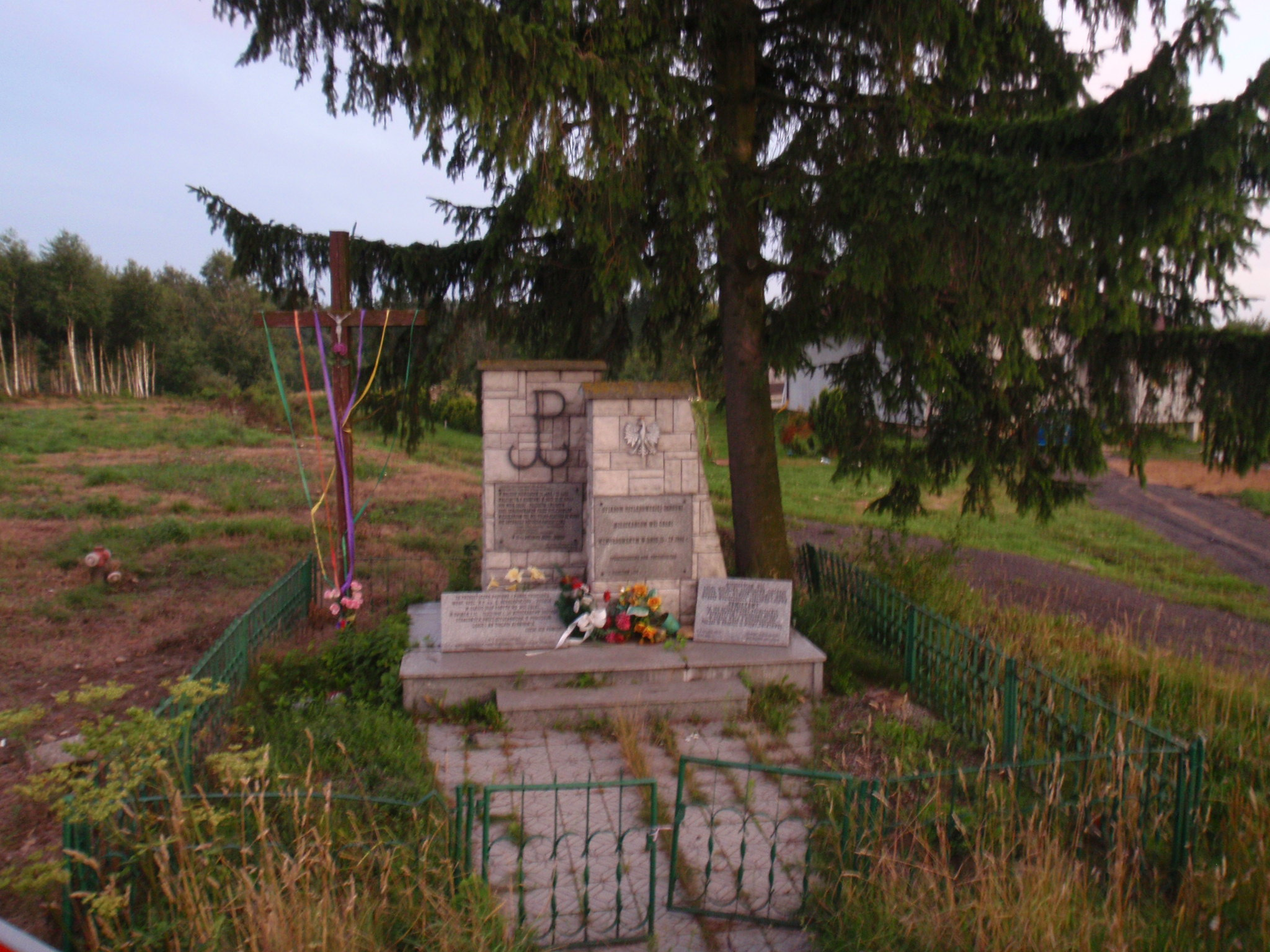 Gałki, gmina Gielniów, monument of victims of the pacification